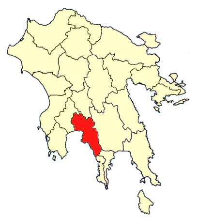 kalamata province